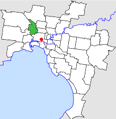 Location of the City of Essendon within Melbourne.